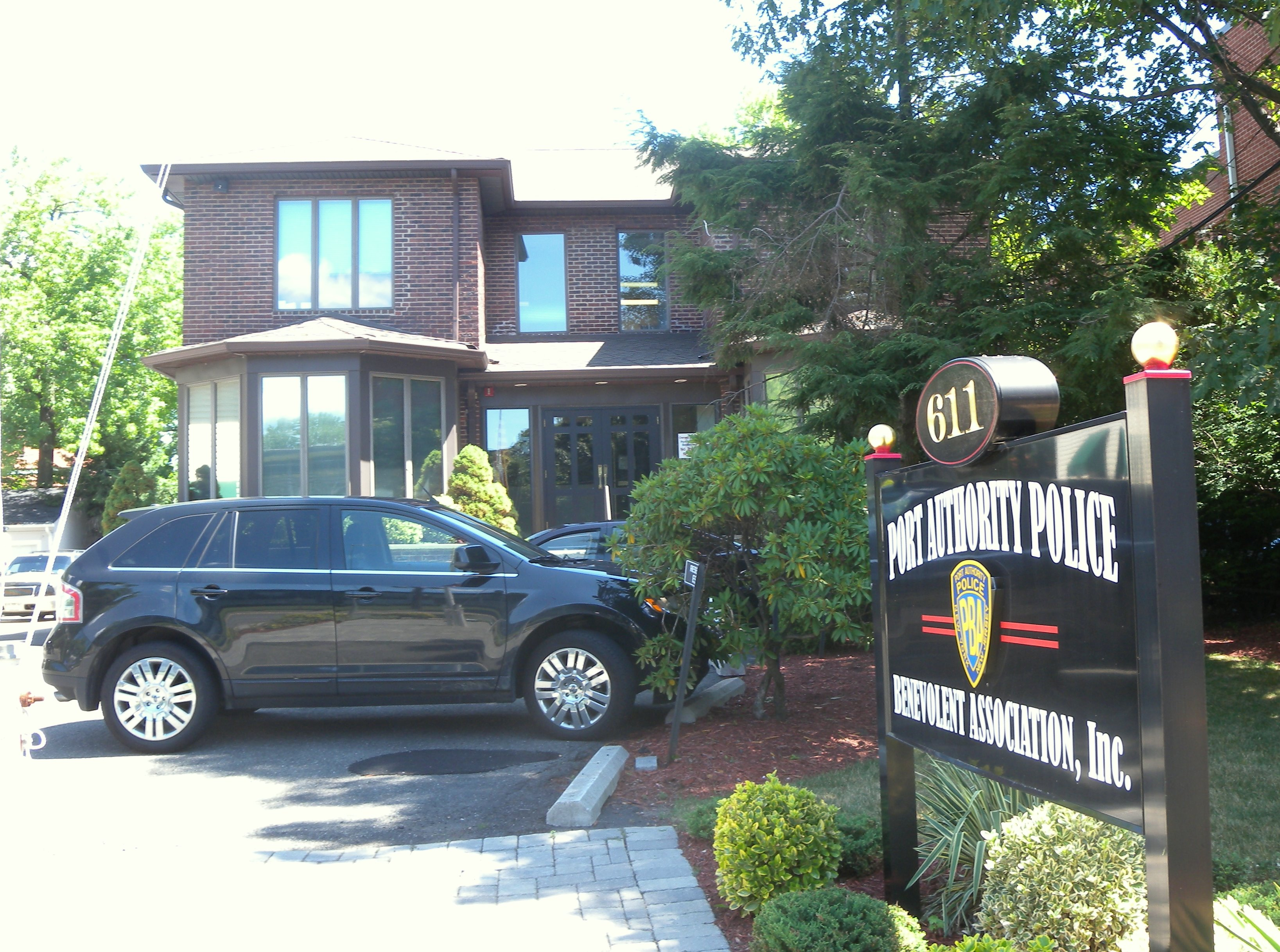 Looking east from East Palisade Avenue at HQ of PA PBA on a sunny late morning.